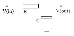 Passive first order low pass filter